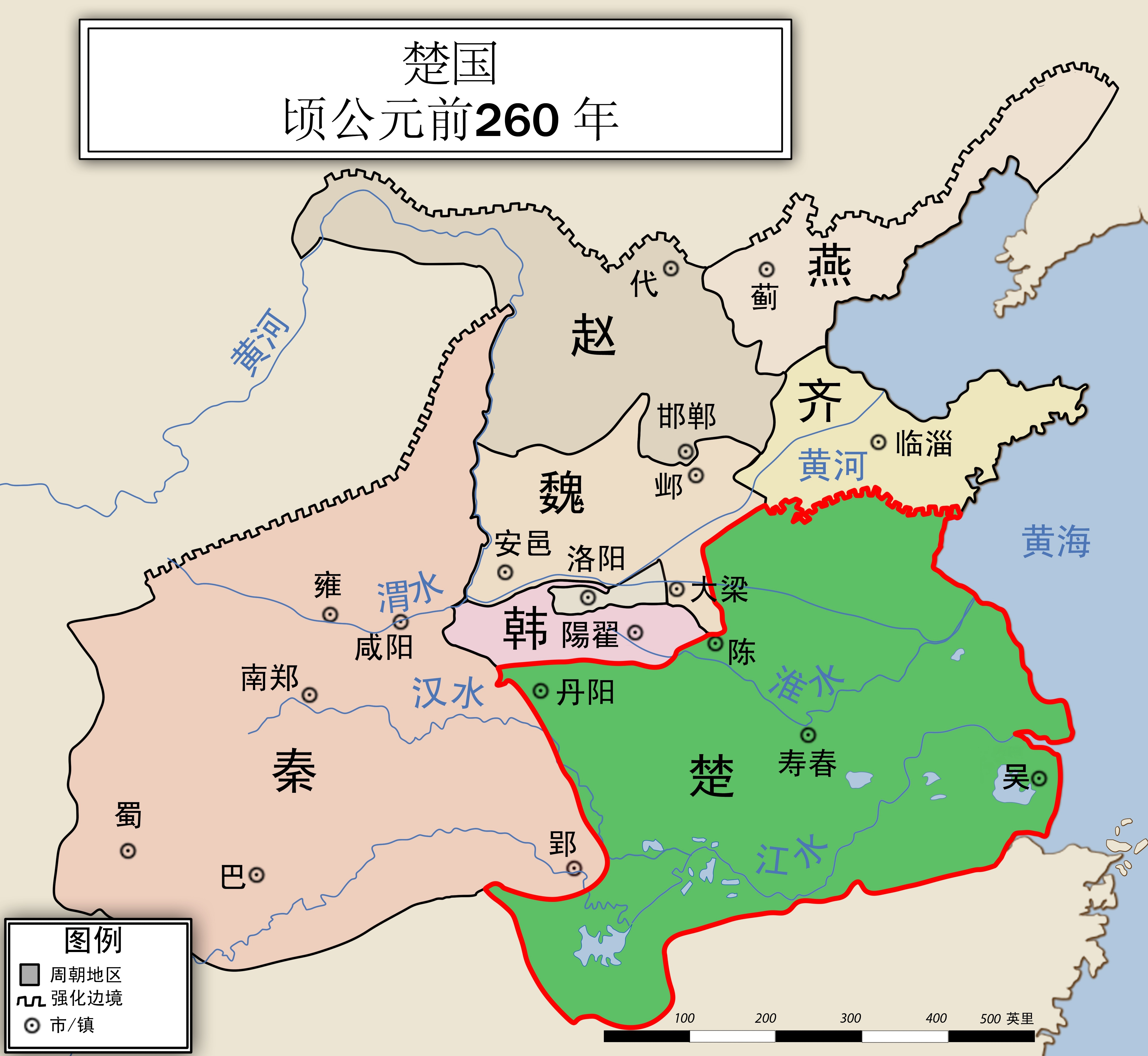 China Map, Chu State, 260BCE